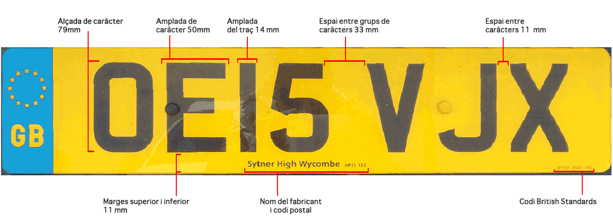 uk license plate sizes